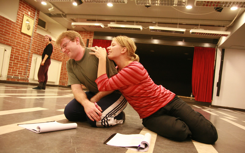 Photo of rehersals in the theatrical ensemble 'Lunds nya Studentteater' during the autumn 2006 play of 'Dante's Divina Commedia'.